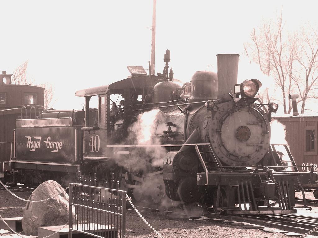 B-4G 2-8-0 No. 40 at the Colorado Railroad Museum in Golden, CO